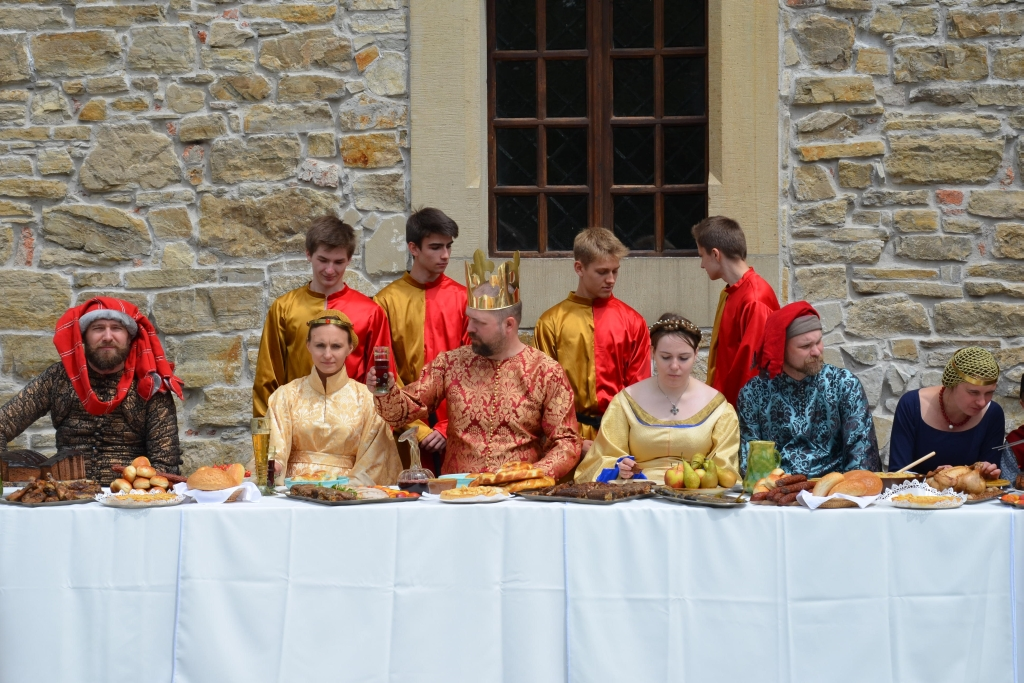 Die Heirat des polnischen Königs Władysław Jagiełło mit Elisabeth von Pilitza an die im Jahre 1417 in Sanok